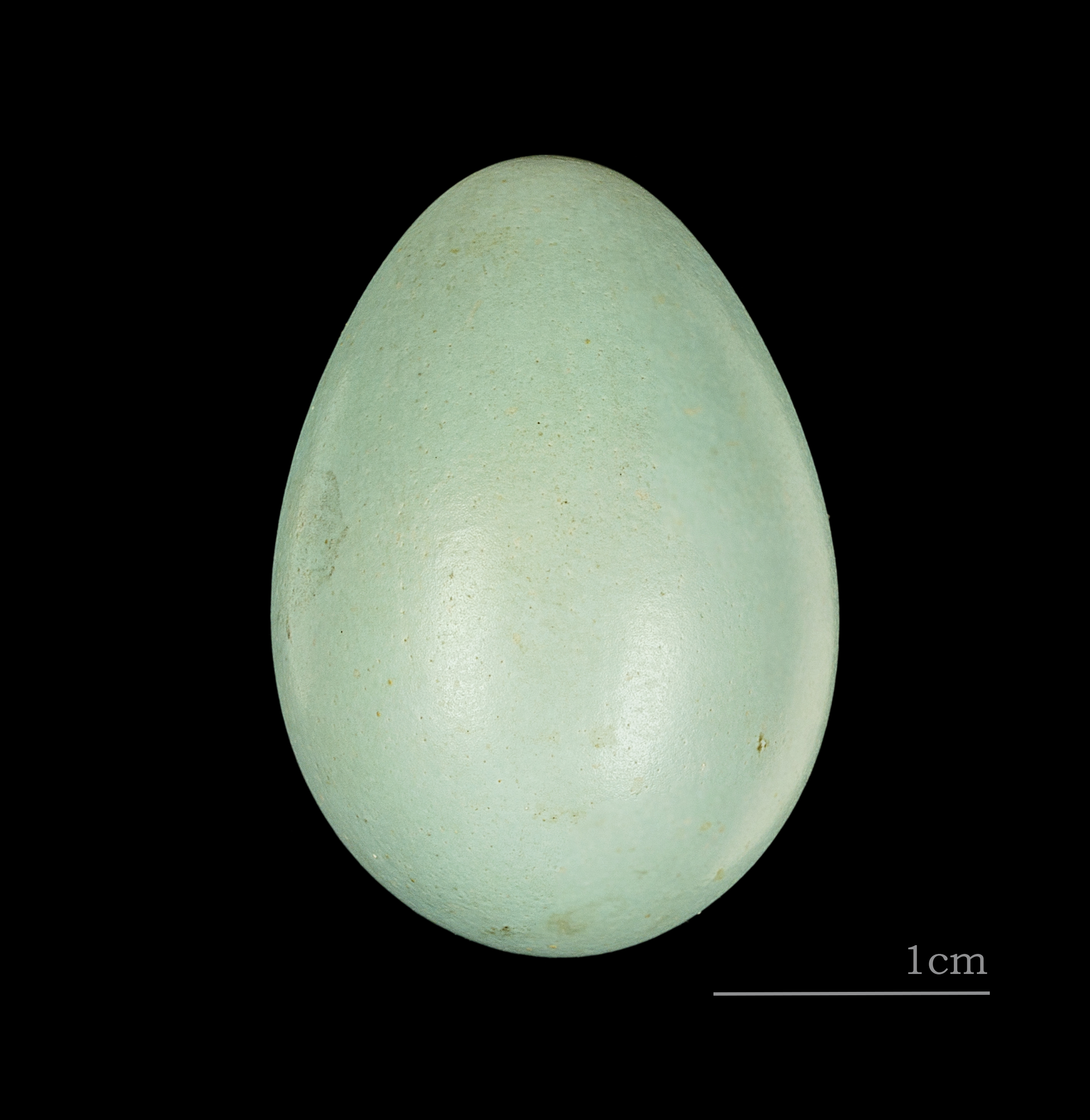 Egg of Plain Laughingthrush - Collection of Henri Heim de Balsac /Jacques Perrin de Brichambaut